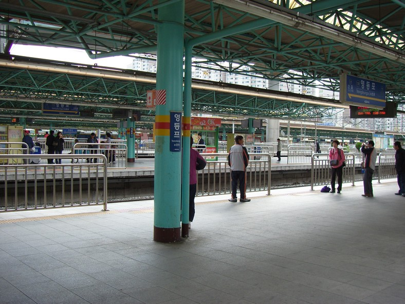 Yeongdeungpo Station